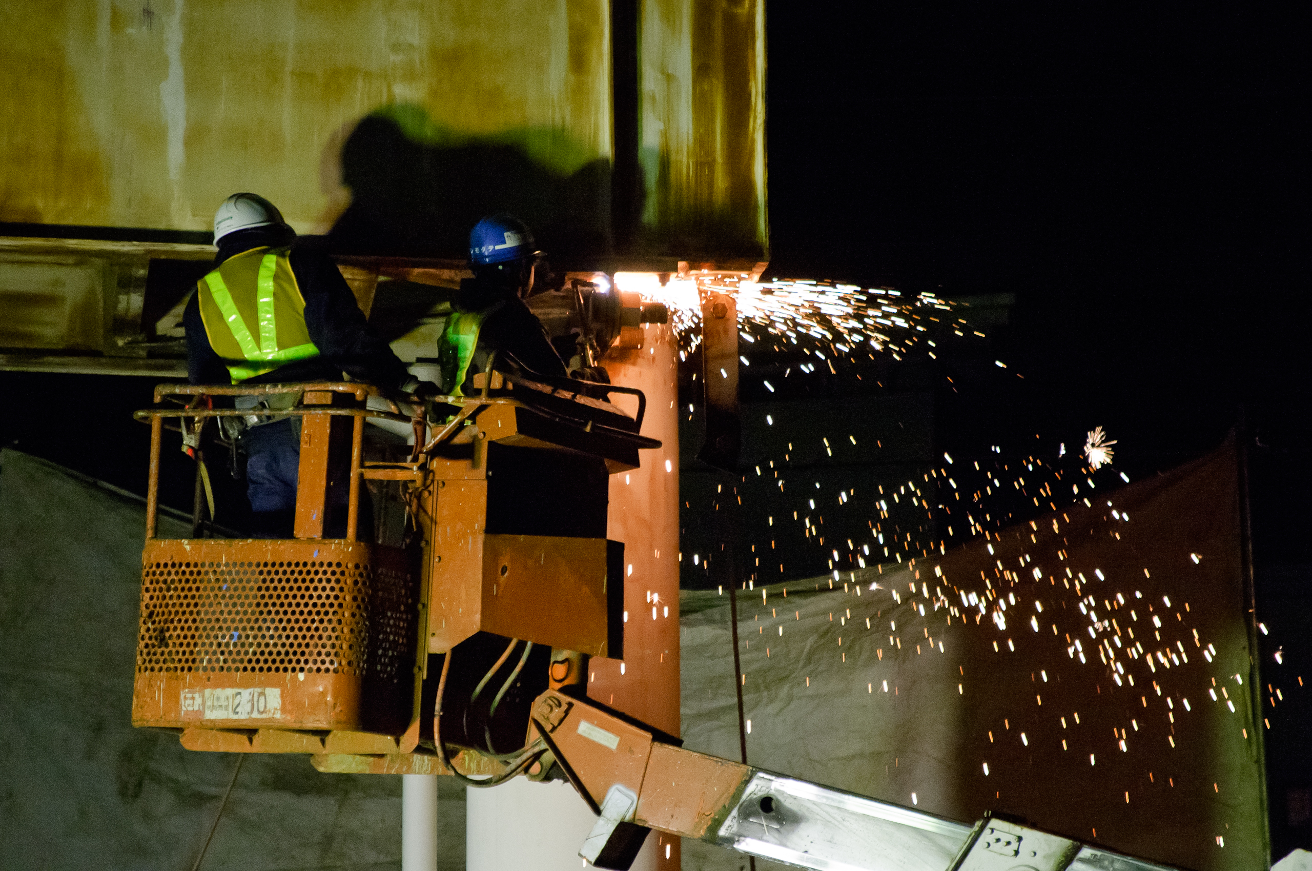 Workman cutting a old footbridge with Oxy-acetylene welding torch.